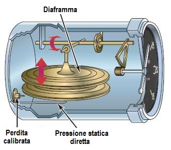 a variometer.